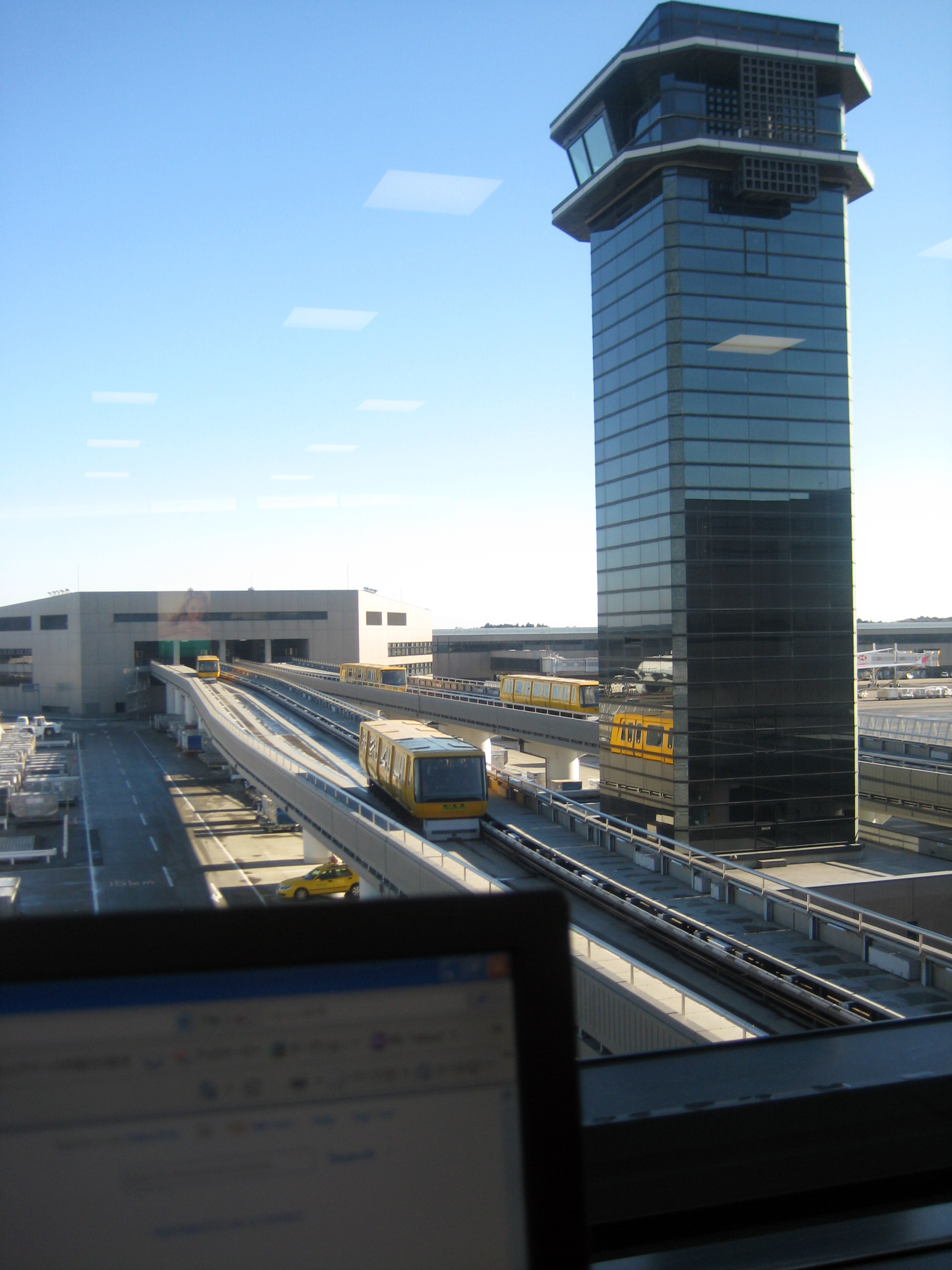 I had a seven hour layover in Narita Airport in Japan, which I spent in the Yahoo! Internet Cafe. The yellow monorail shuttles to and from Terminal 2, directly under the air traffic control tower. The Cafe offered free internet access and a big comfortable lounge with a television. I was the only person in the lounge and the nice attendants gave me the remote control.